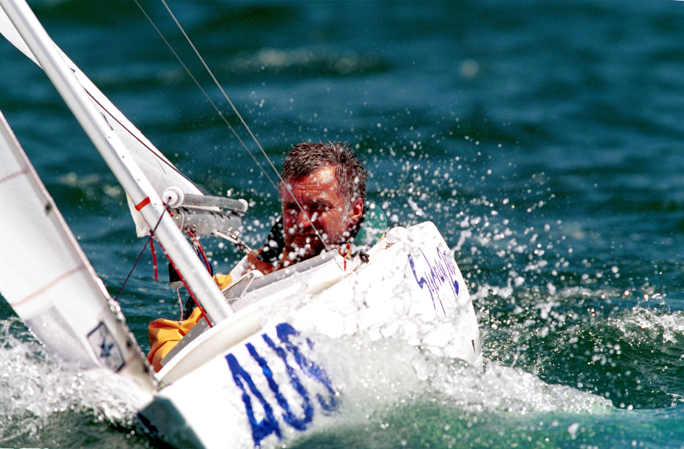 Action shot of Australian sailor Peter Thompson during sailing competition in the Sydney Harbour at the 2000 Sydney Paralympic Games